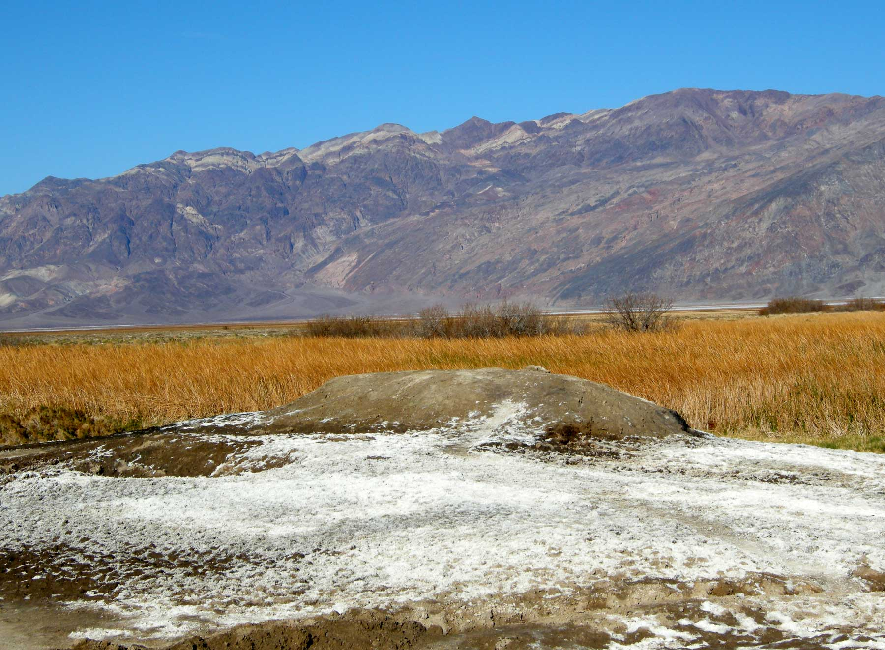 Earthworks at the site of the former Eagle Borax Works, Death Valley, California.